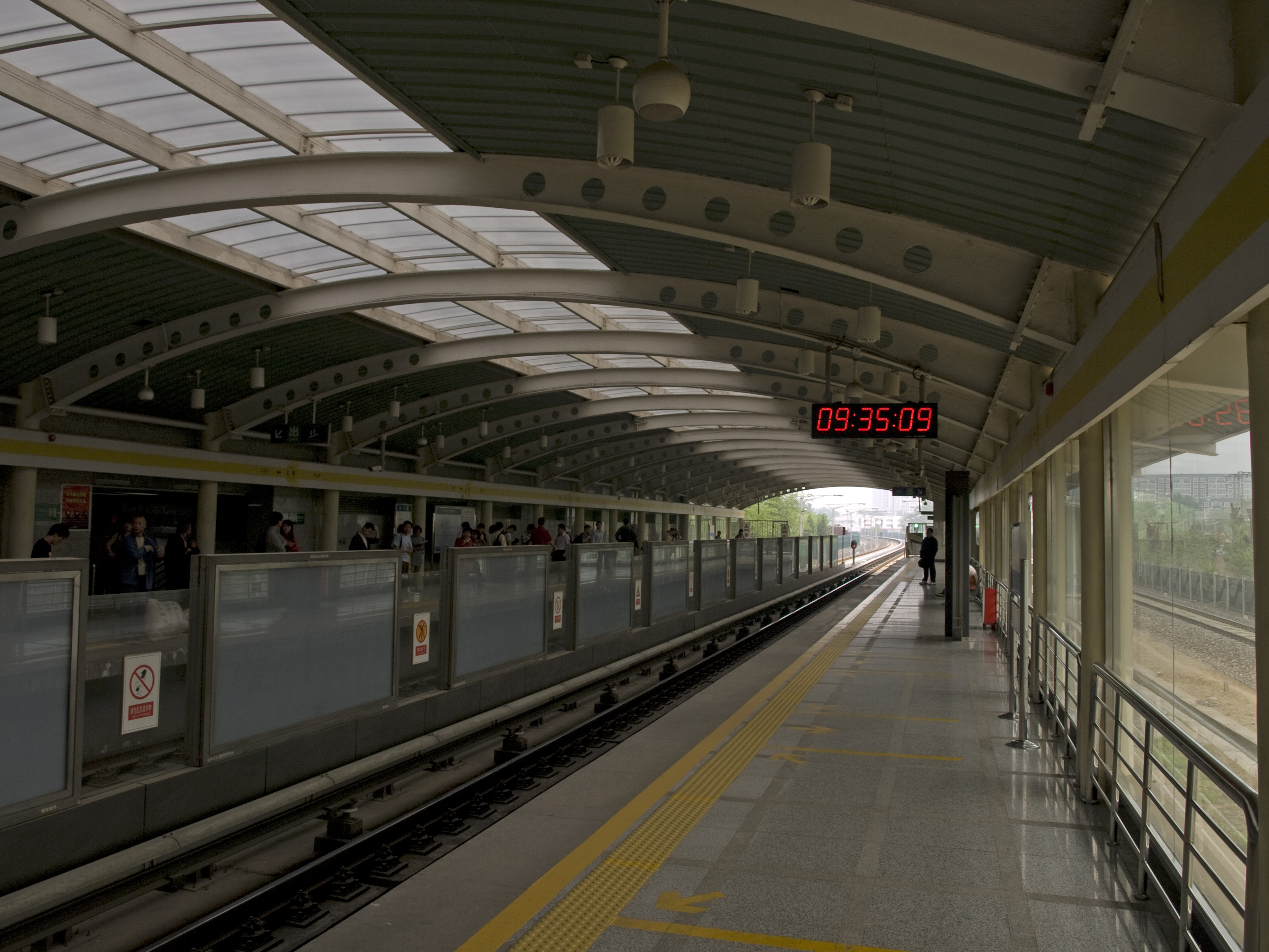 Shangdi station, Beijing Subway